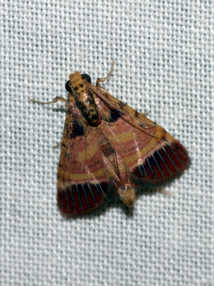 Borneo, Crocker Range National Park. April 2009.